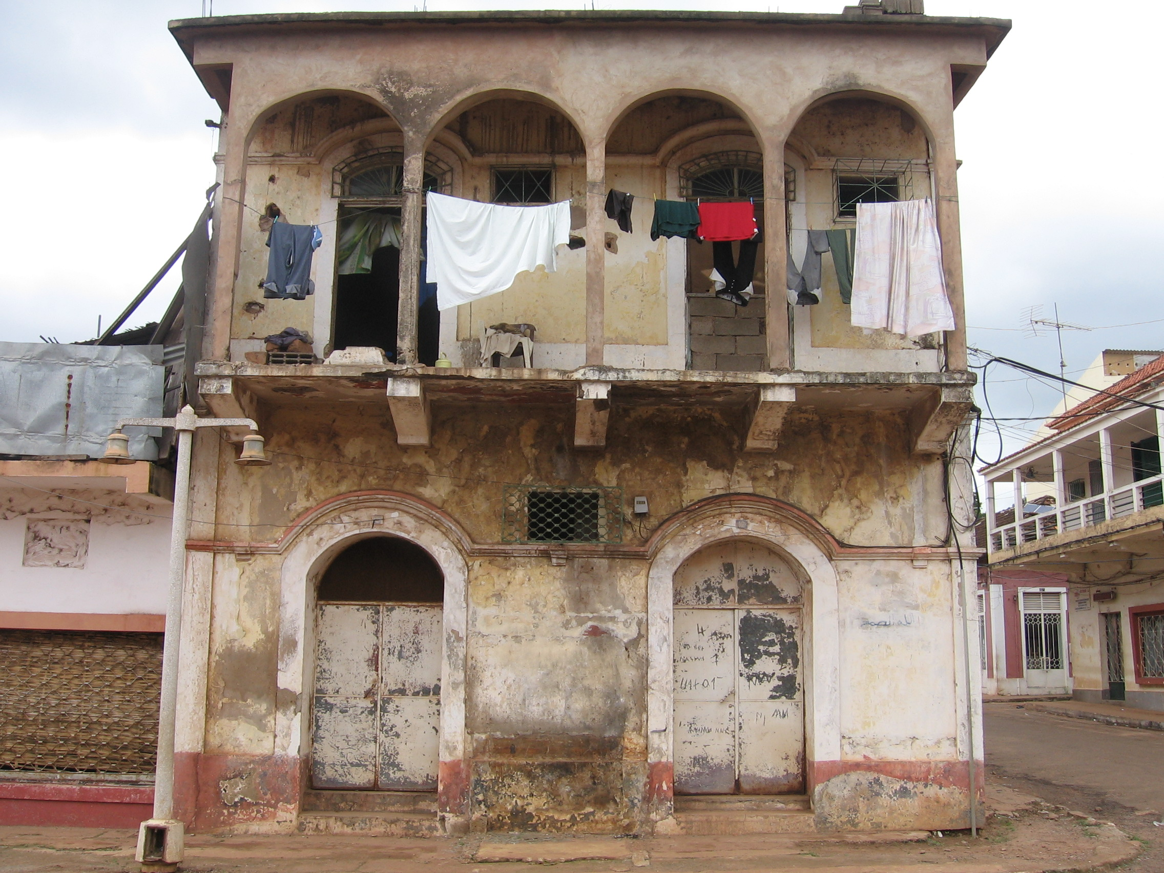 Bissau Velho.